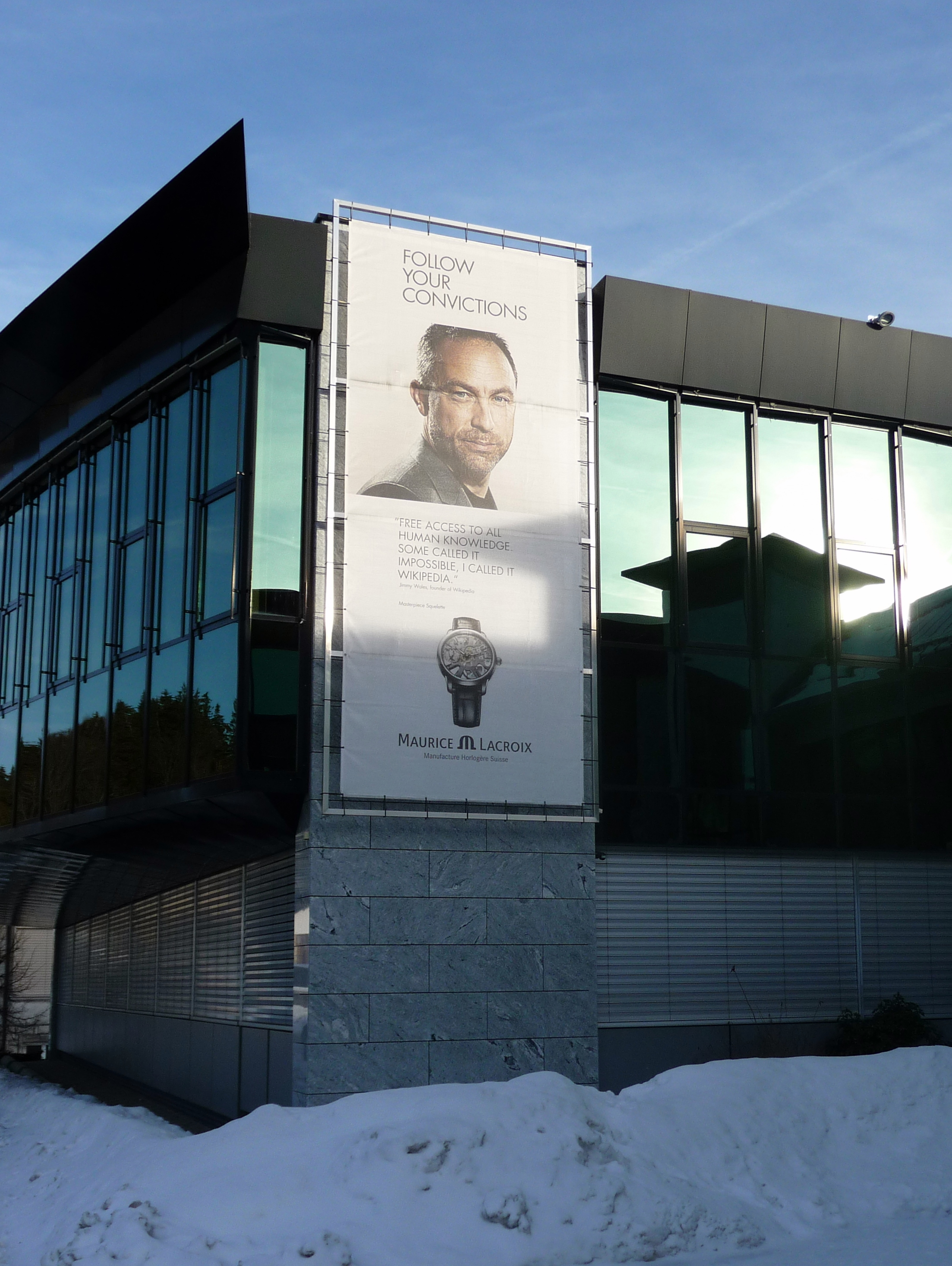 Front of the Maurice Lacroix Factory, Saignelégier, Jura, Switzerland Façade de l'usine Maurice Lacroix à Saignelégier, canton du Jura, Suisse